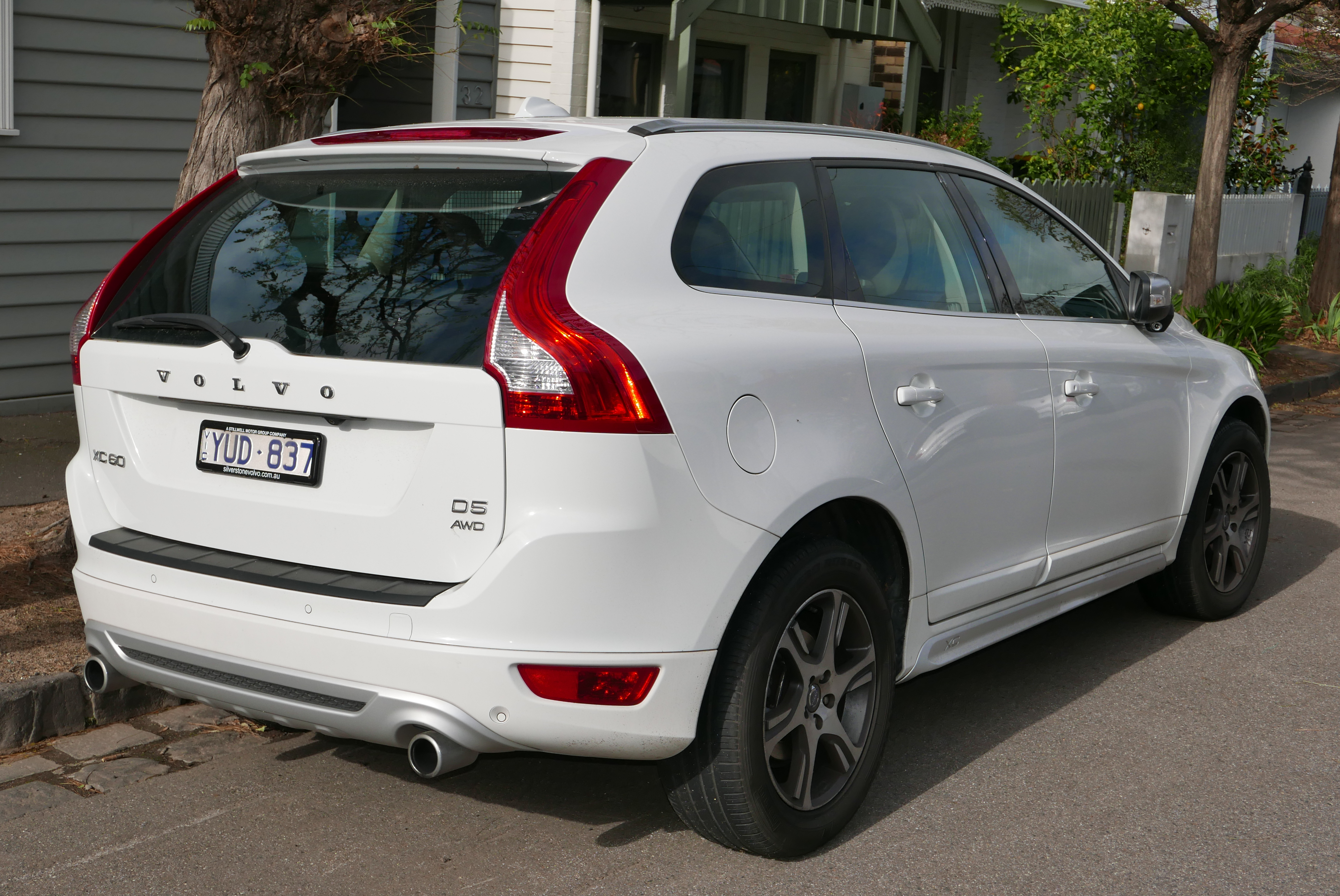 2012 Volvo XC60 (MY12) D5 Teknik wagon. Photographed in Fitzroy North, Victoria, Australia. Vehicle registration enquiry resultsJurisdictionVictoriaRegistrationYUD837Chassis codeYV1DZ8256C2279701Engine code1071930Compliance date2012-01Year of manufacture2012